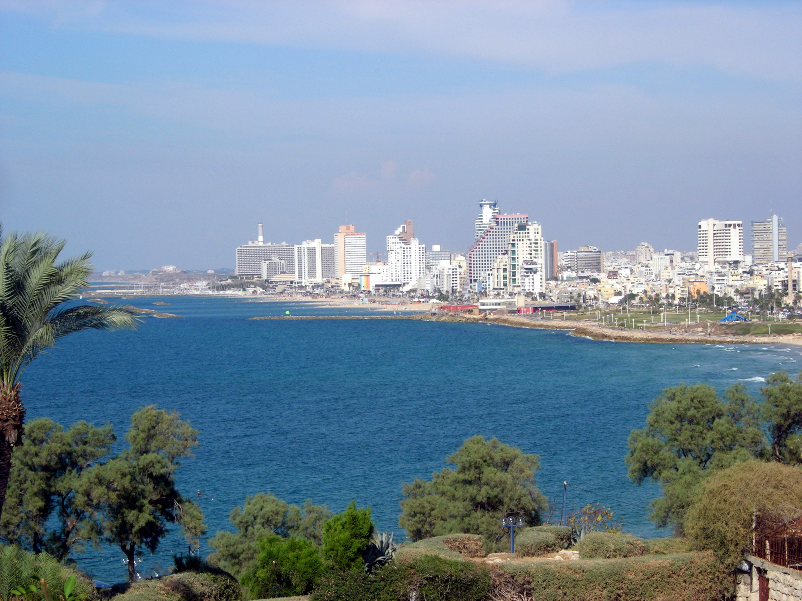 Description =Tl Aviv vue de Jaffa Source =Photo taken by Remi Jouan Date =Octobre 2006 Author =Remi Jouan